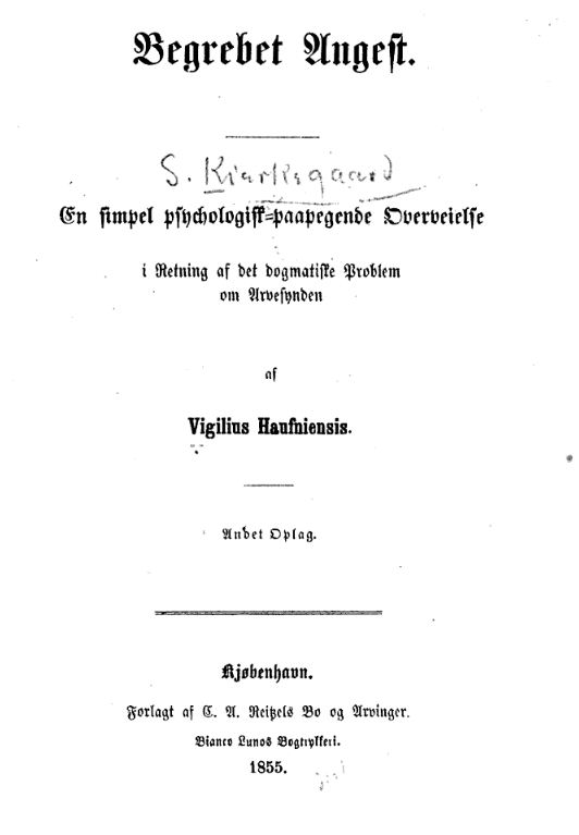 Title cover of 1855 issue of The Concept of Anxiety by Soren Kierkegaard